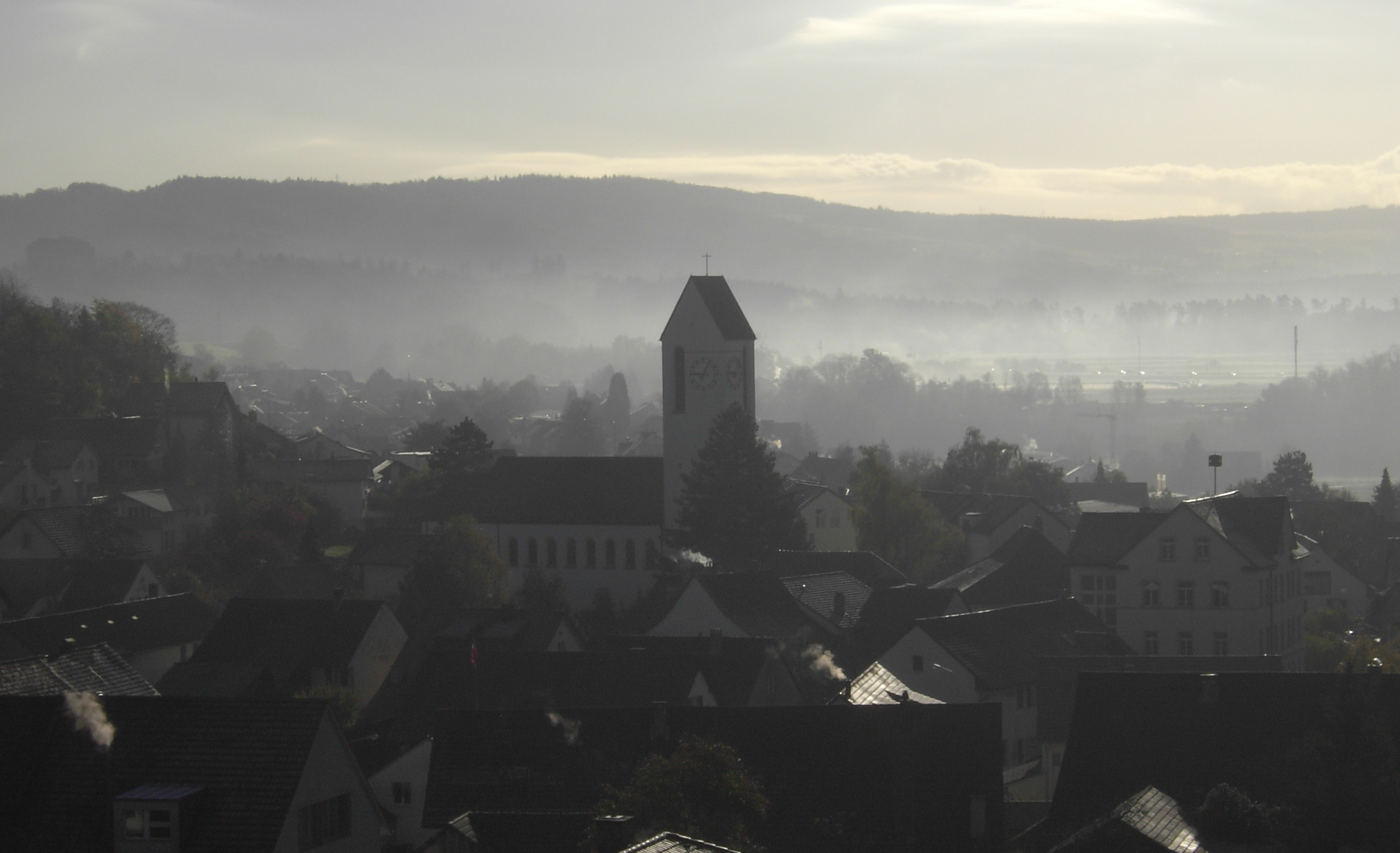 Birmenstorf AG with rom.-cath. church, Switzerland